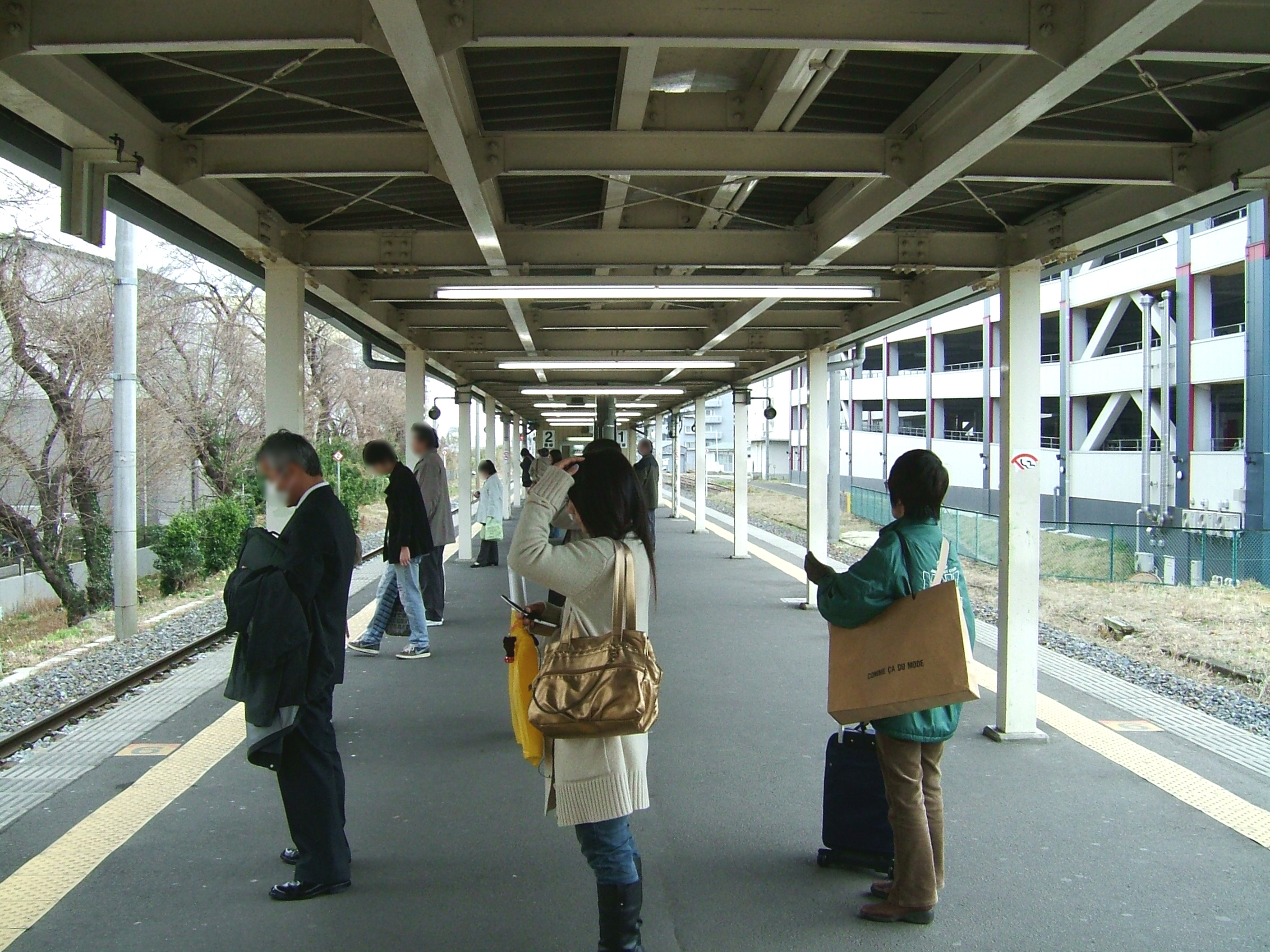 The platform at Kita-Sendai Station on the Senzan Line